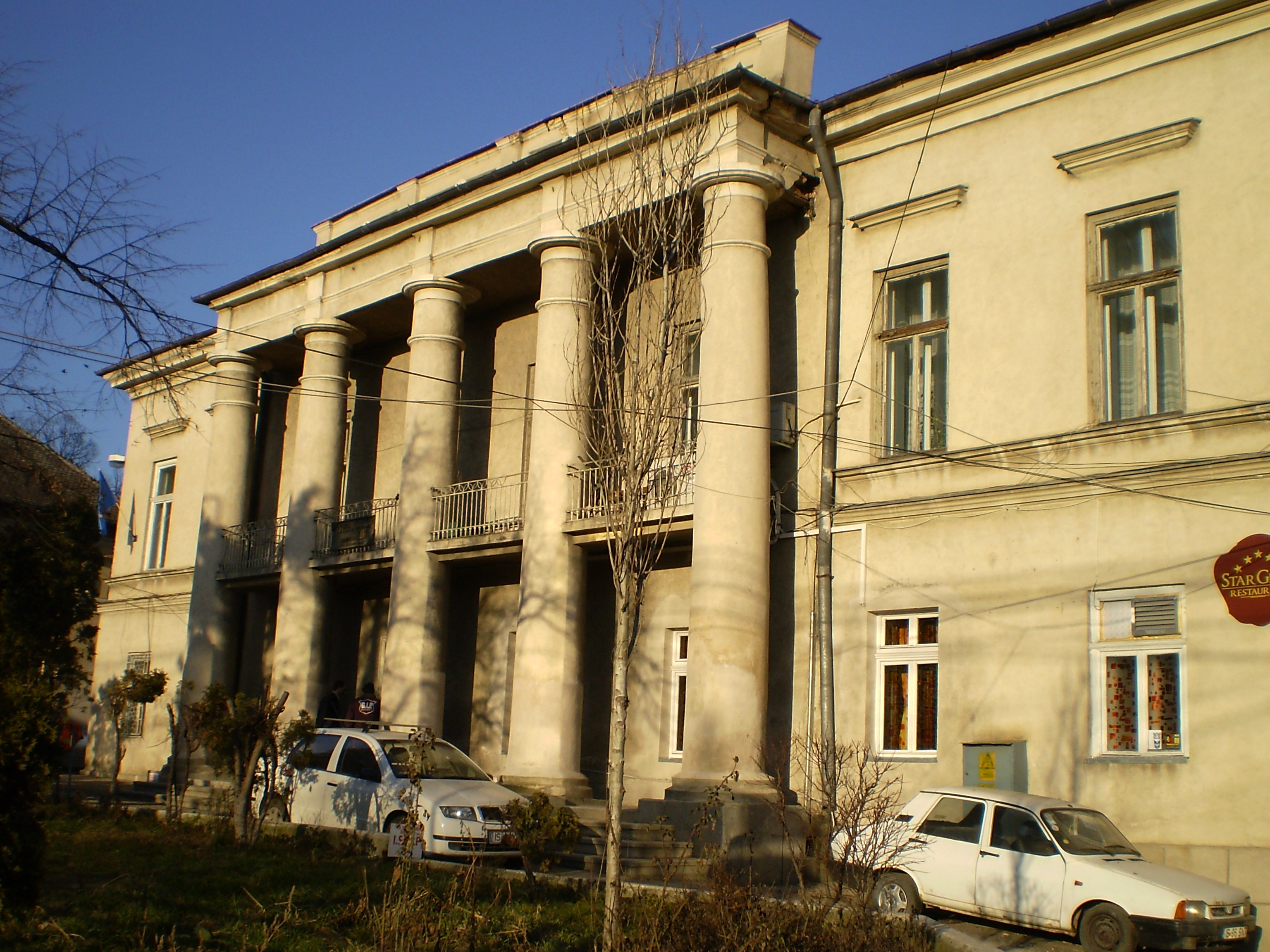 Anastasie Başotă House , Iaşi, RomaniaRomână: Casa Anastasie Başotă , 1838 , Iaşi, România